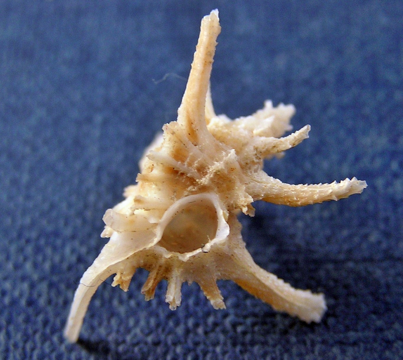 Favartia (Favartia) martini (Shikama, 1977) , a murex snail from the family Muricidae; Philippines